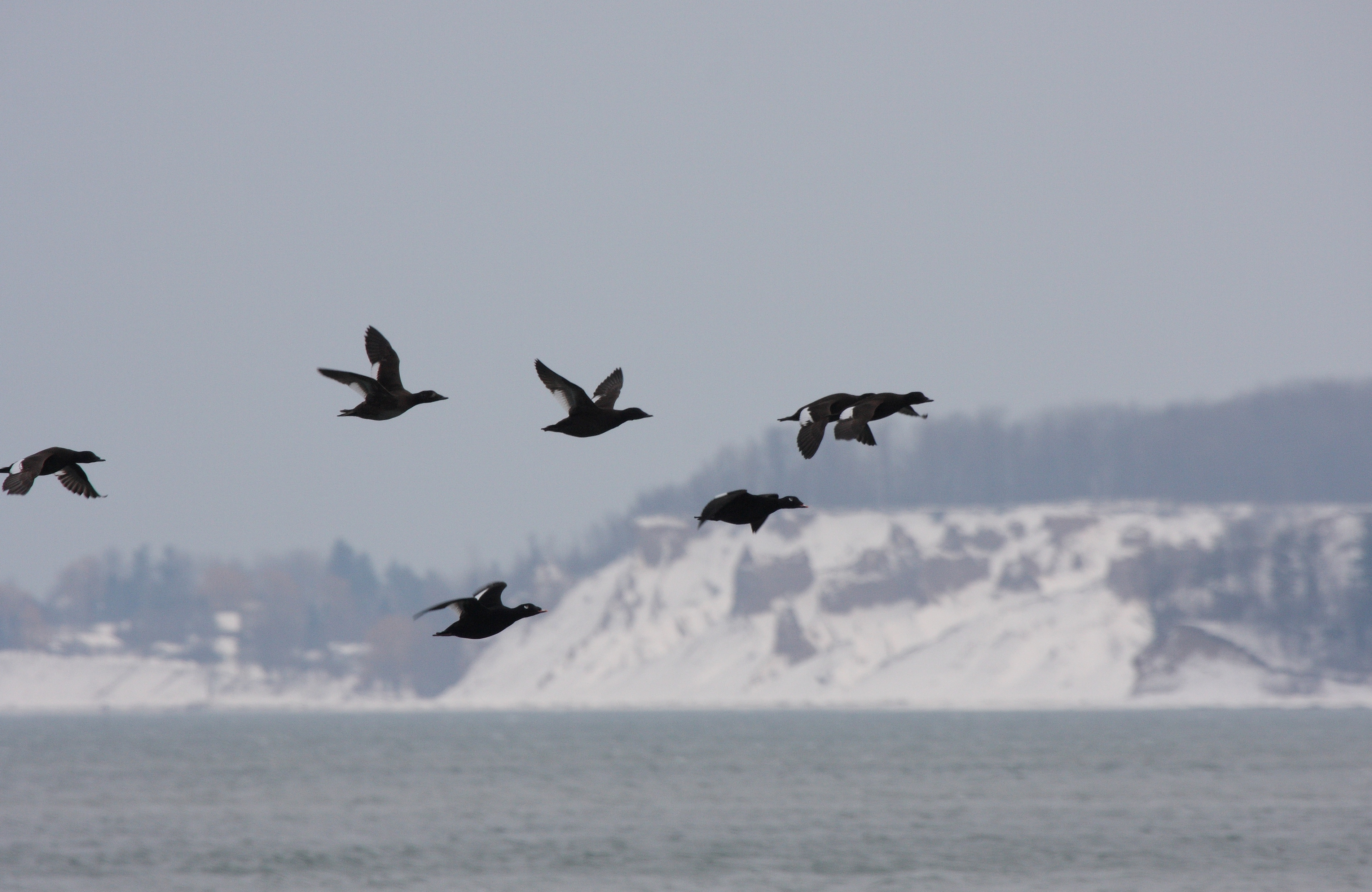 White-winged Scoters Melanitta deglandi in flight, Sodus Point, Lake Ontario, near Sodus, NY.